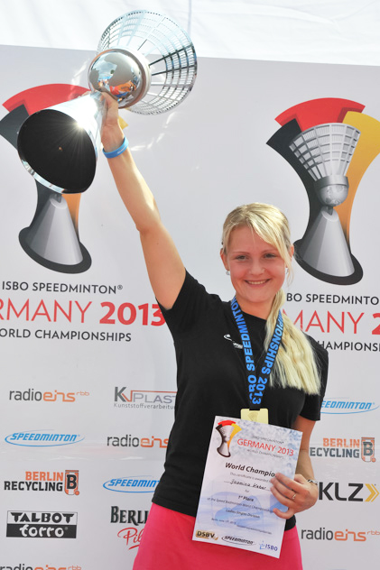 Slovenian player Jasmina Keber wins the World Champion title at the Speed badminton World Championships 2013 in Berlin, Germany.